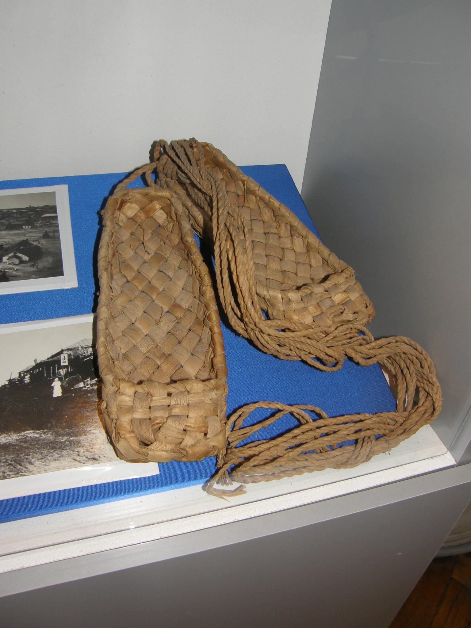 Museum of History of Donetsk metallurgical plant